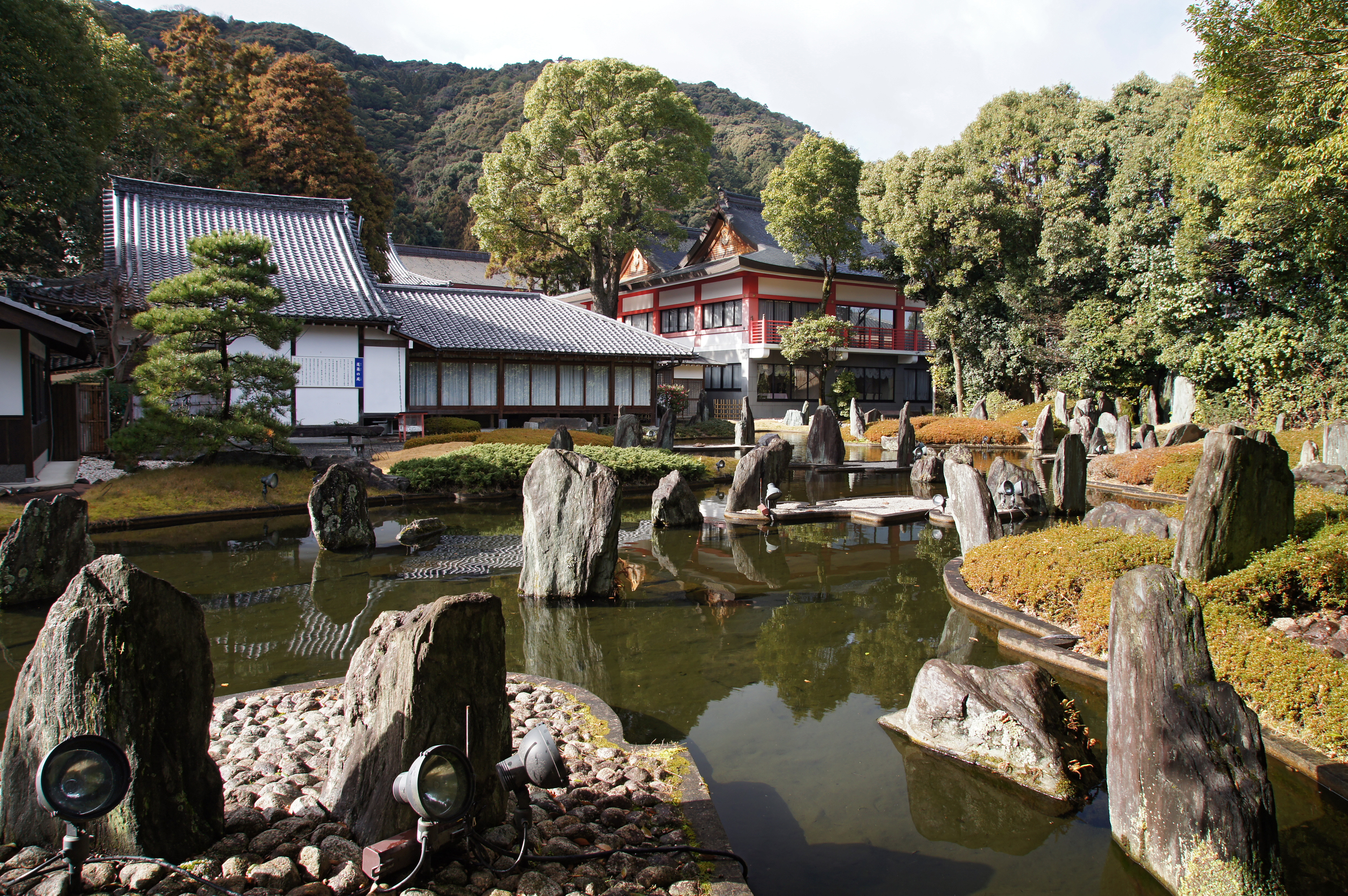 Shofuen gardens of Matsunoo-taisha in Kyoto, Kyoto prefecture, Japan.